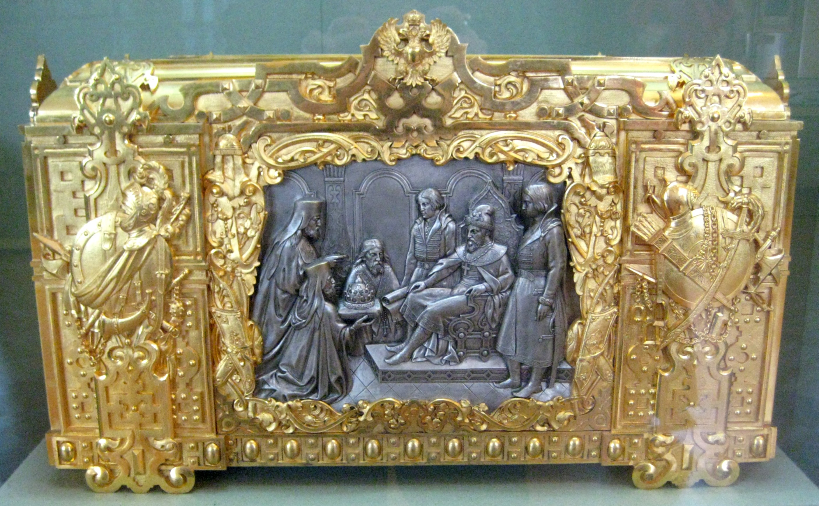 Box for charter about accession to the throne of tsar Ivan The Terrible. Russia, 1853-8, master F.G. Solntsev